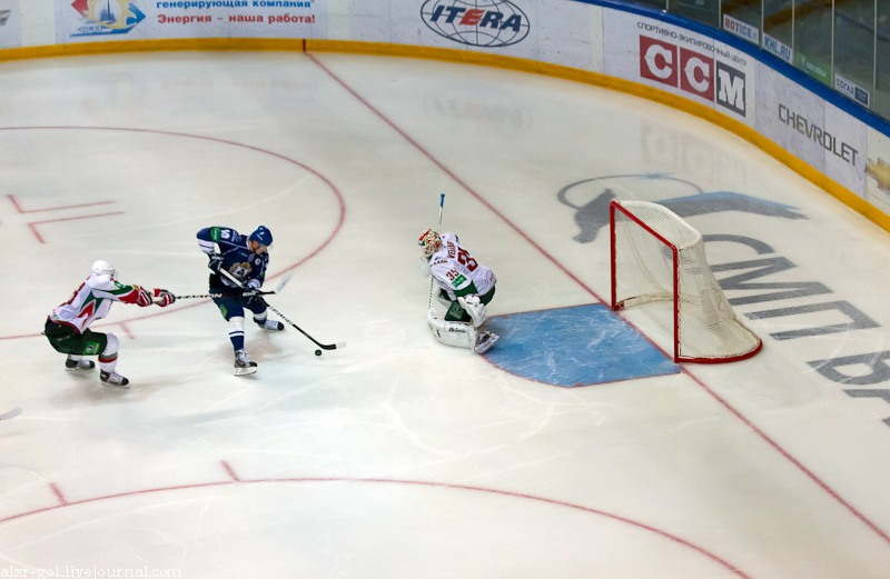 KHL game Amur Khabarovsk vs. Ak Bars Kazan on September 28, 2011. Ak Bars defenceman Denis Kulyash fouls on Amur forward Radik Zakiev who was on a breakaway to Ak Bars goalie Petri Vehanen. This foul led to a penalty shot.